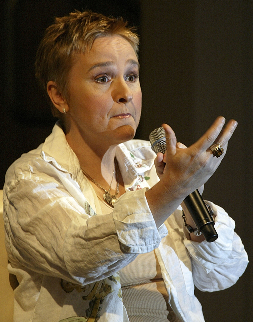 Grammy Award Winning Country Singer and lesbian activist, Melissa Etheridge. Photo by Rafael Amado Deras©